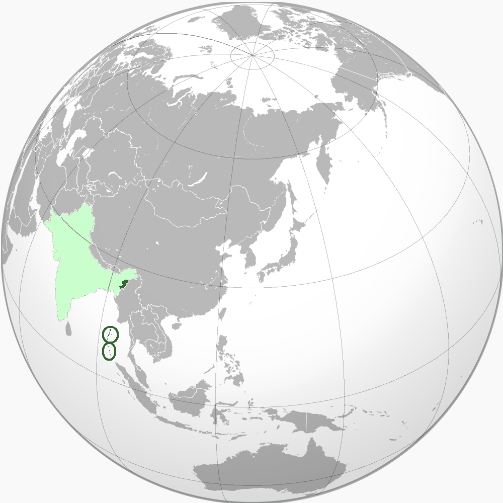 Green: Territory controlled Top: Andaman Islands Bottom: Nicobar Islands Light green: Territory claimed